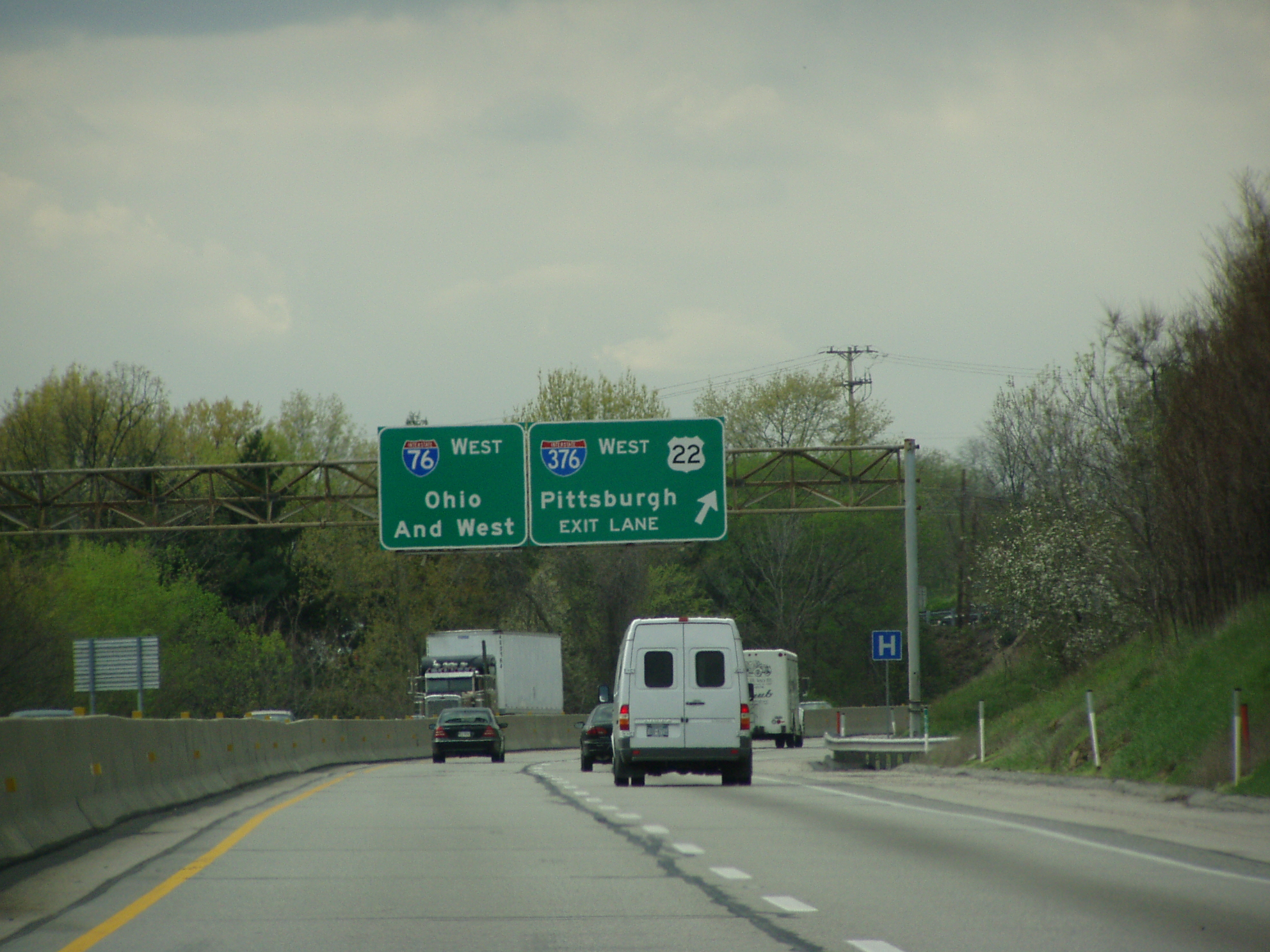 Interstate 376 forks off from the westbound Pennsylvania Turnpike near Pittsburgh.